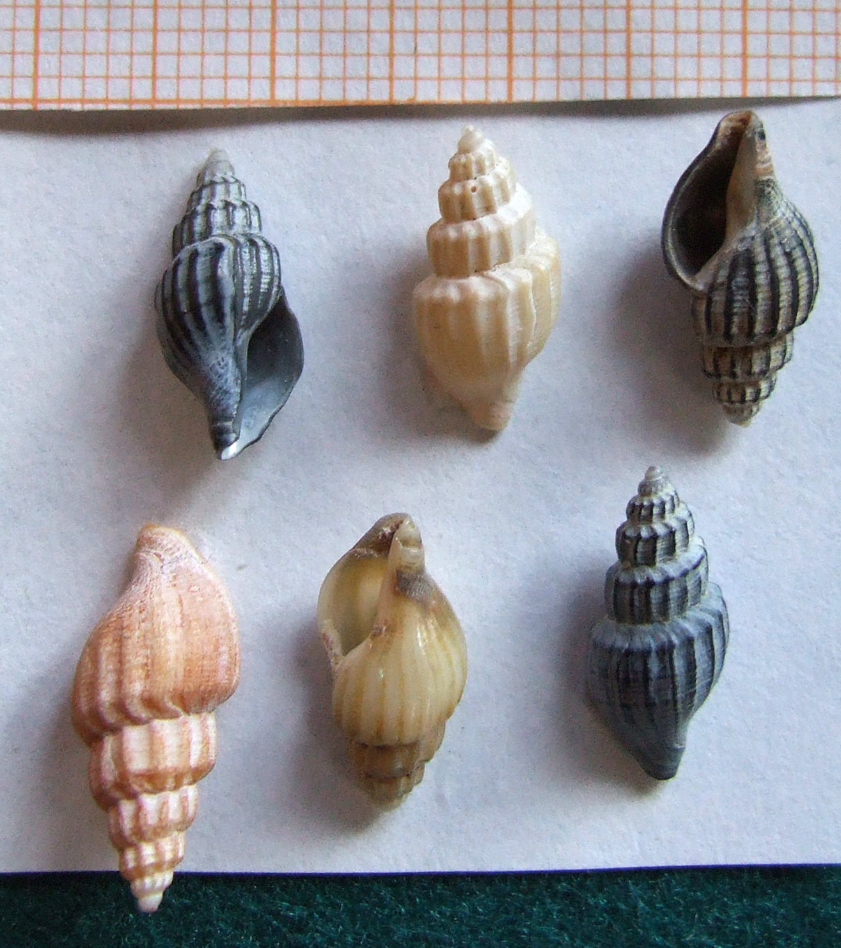 Propebela turricula, synonym: Oenopota turricula (Montagu, 1803), western shore of Sylt, Germany